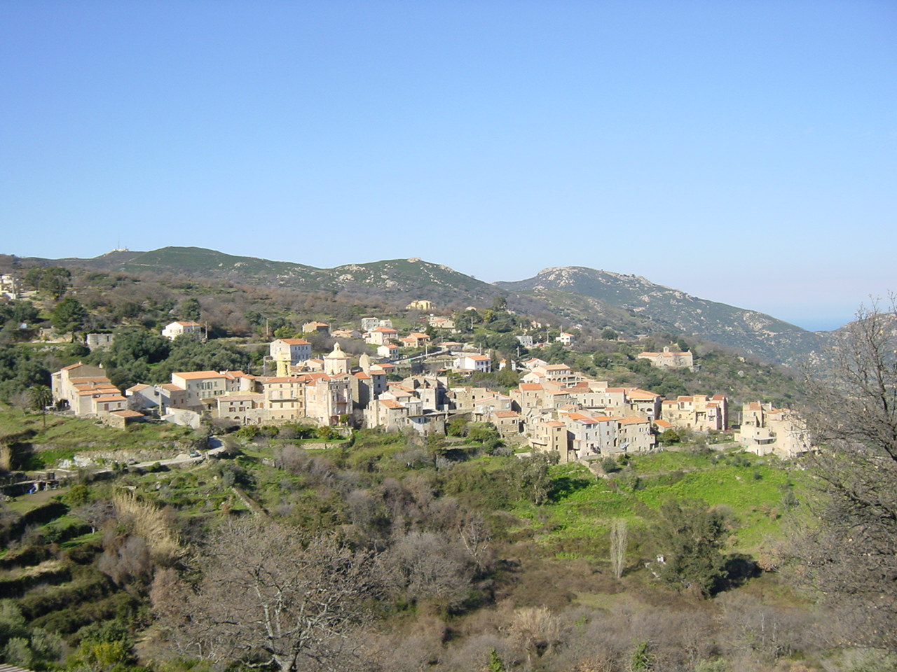 Cateri village in Corsica (France)